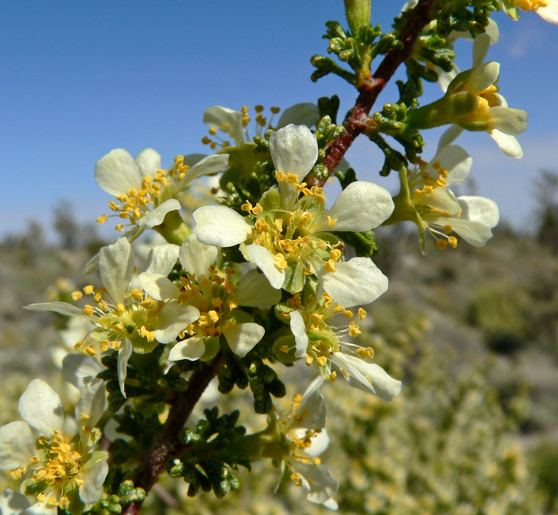 Purshia glandulosa on Cima Dome near Teutonia Peak, Mojave National Preserve, California